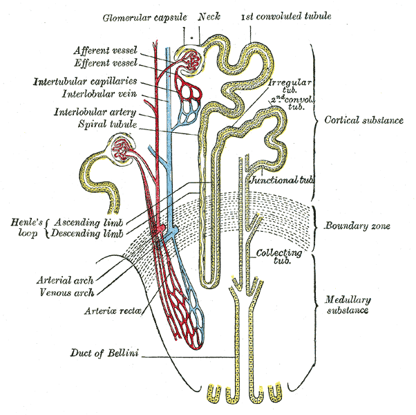 Structure of glomerulus and tubulus in the human kidney. From Gray's Anatomy of the Human Body, 1918 (public domain)